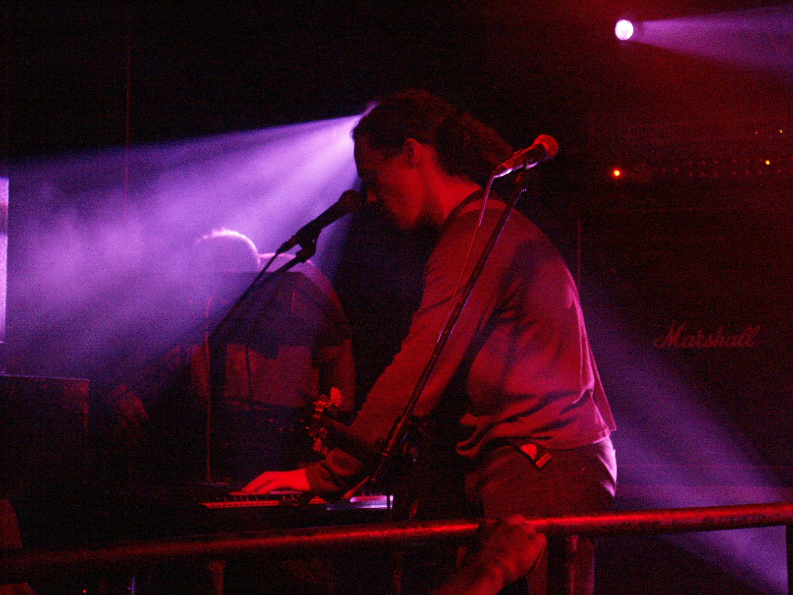 Daniel Cavanagh from Anathema at a concert in Mega Club in Katowice, Poland; Les Smith in the background